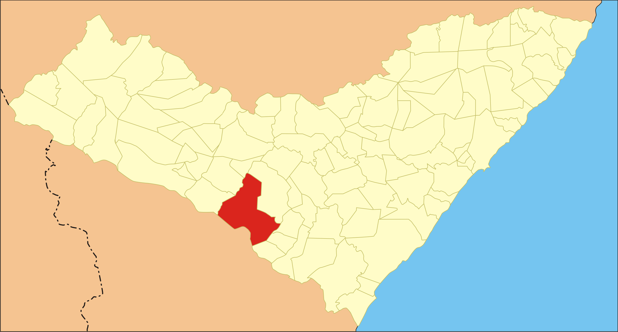 City localization in Alagoas